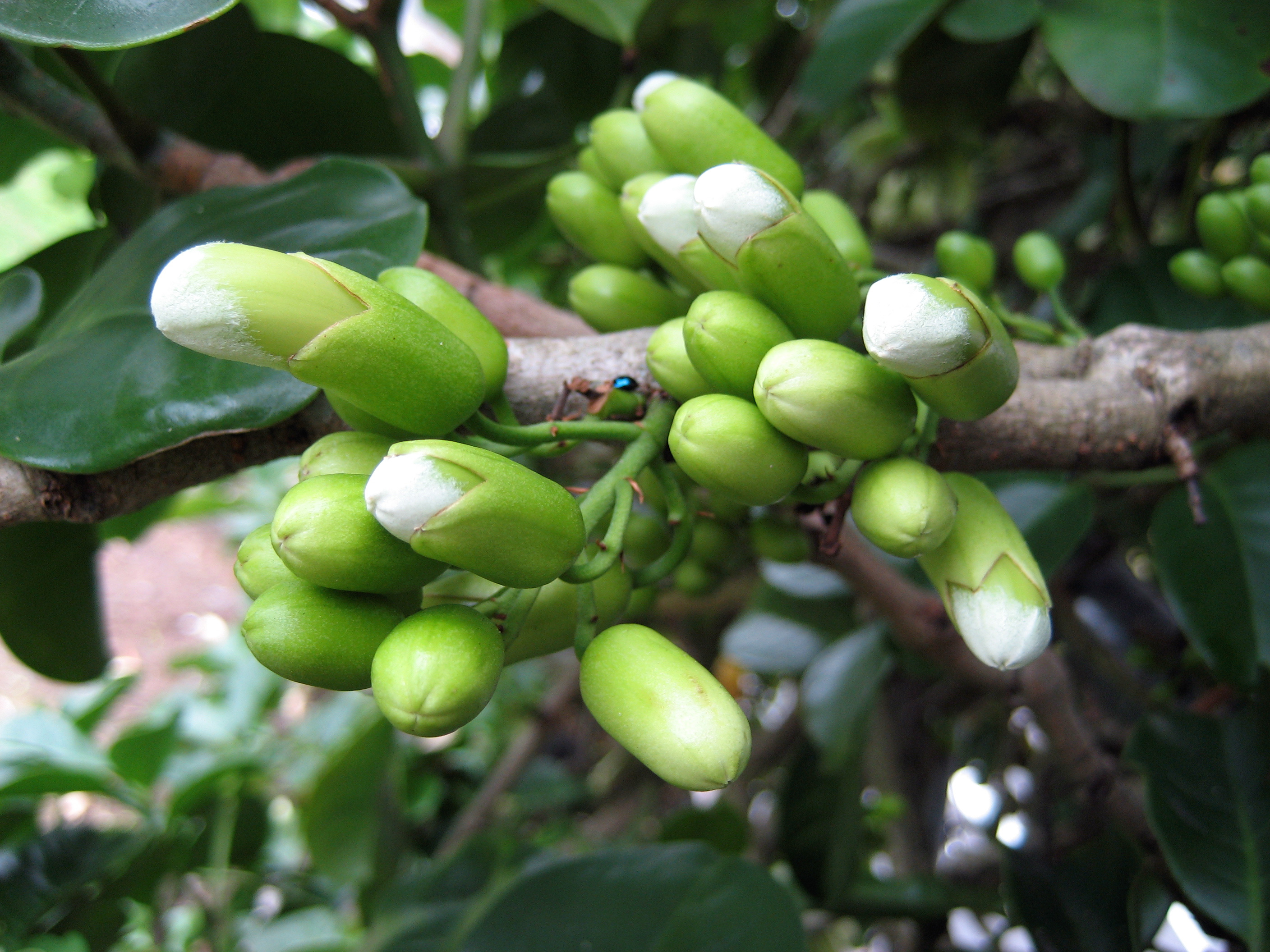 Tecomanthe speciosa. Clusters of flowerbuds arise directly from the stems in autumn or early winter. Auckland, New Zealand. Just visible on the plant stem is a Steelblue ladybird, Halmus chalybeus, a predatory beetle that feeds on scale insects.